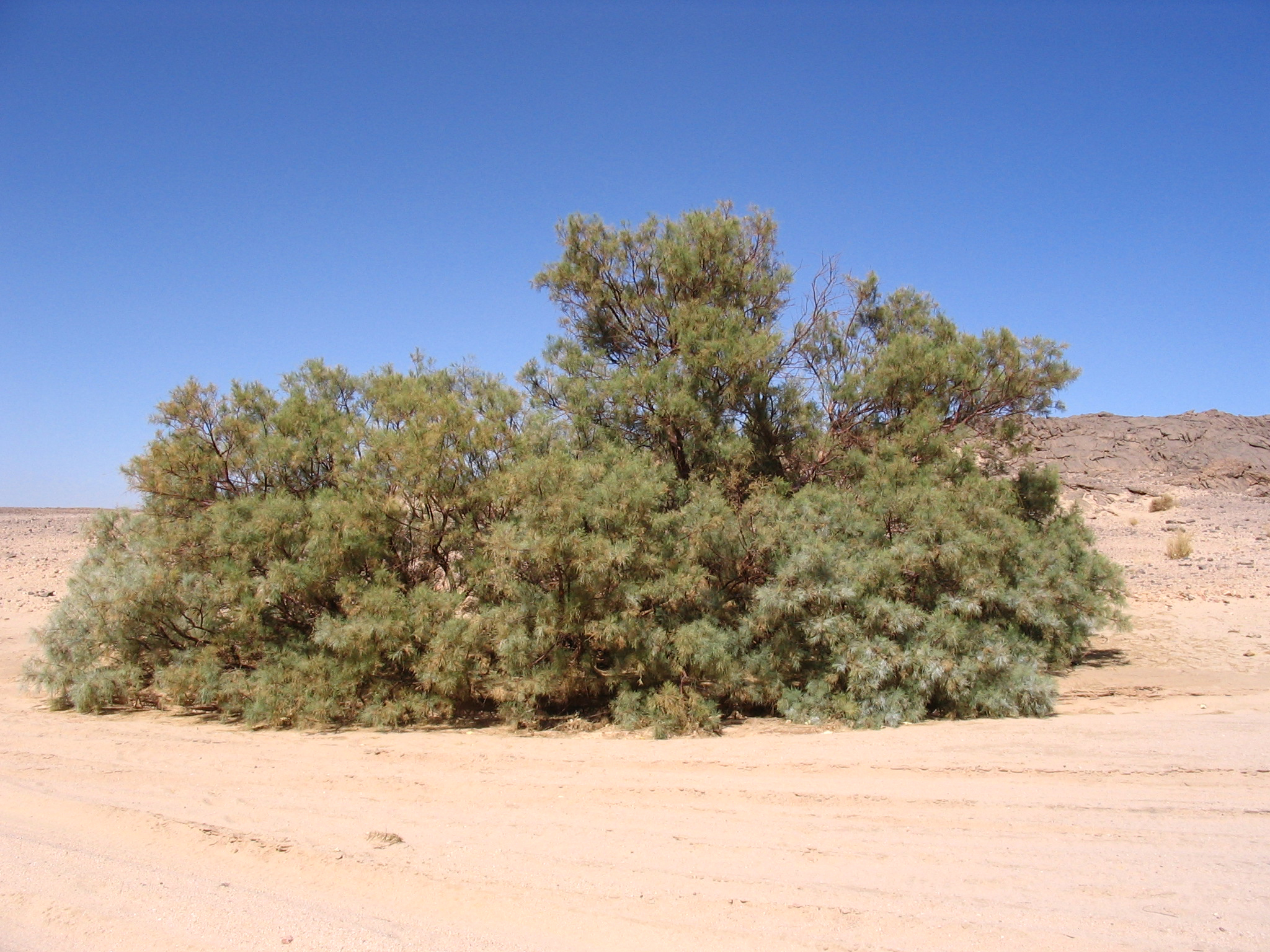 Tamaris in Algeria